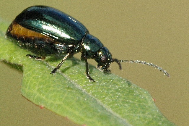 Picture taken in Commanster, Belgian High Ardennes . Species: Altica oleracea female